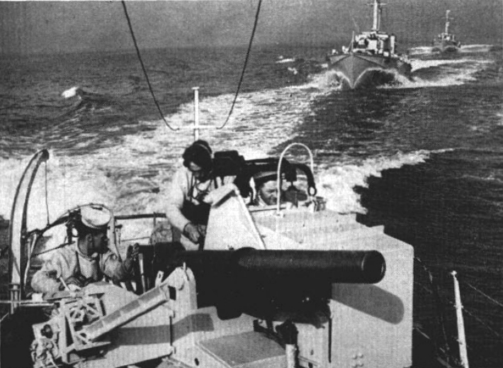 Royal Navy motor torpedo boats underway during the NATO "Operation Mainbrace", in Septebmer 1952.